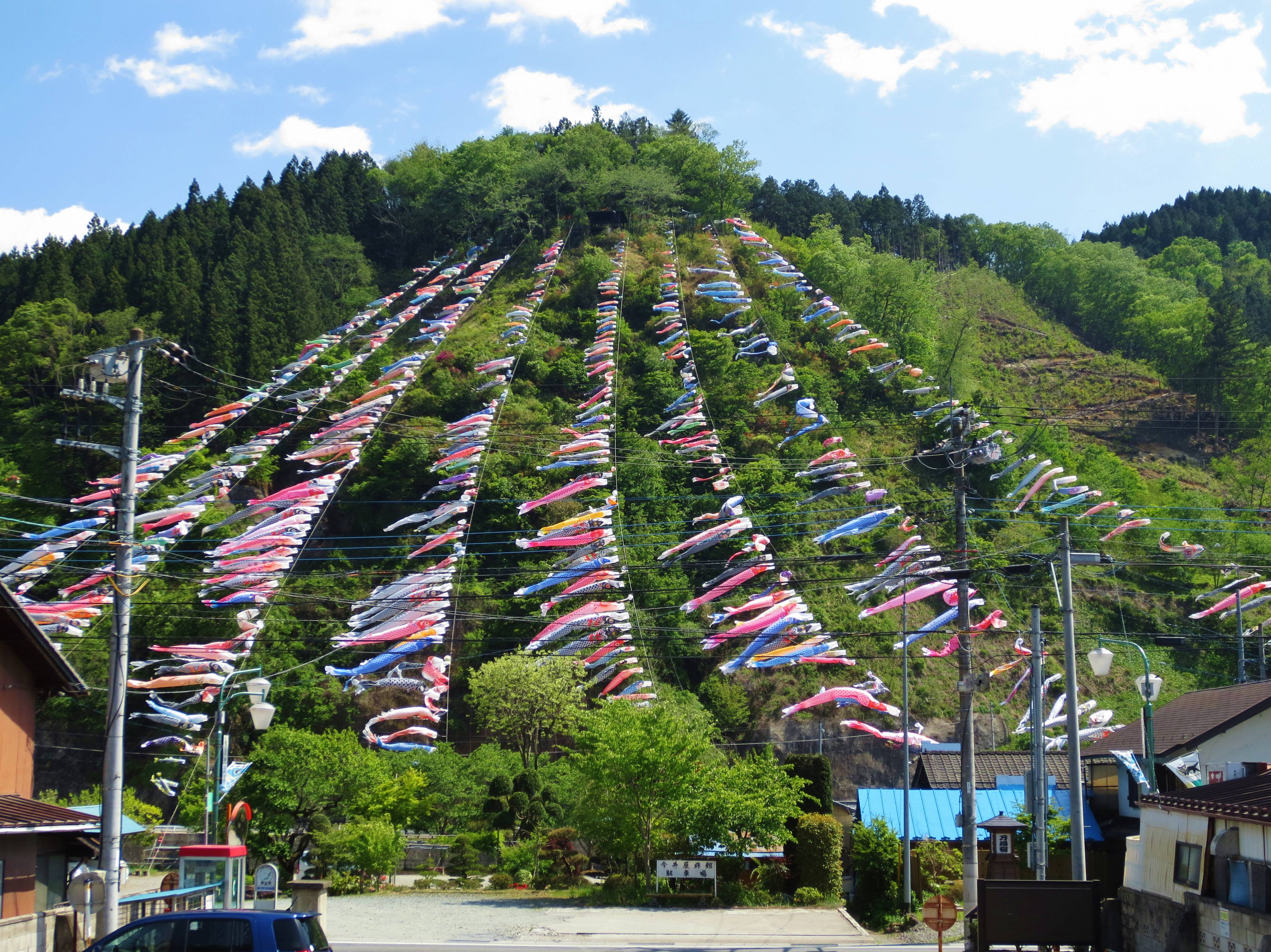 Kanna Koinobori Festival 2014.